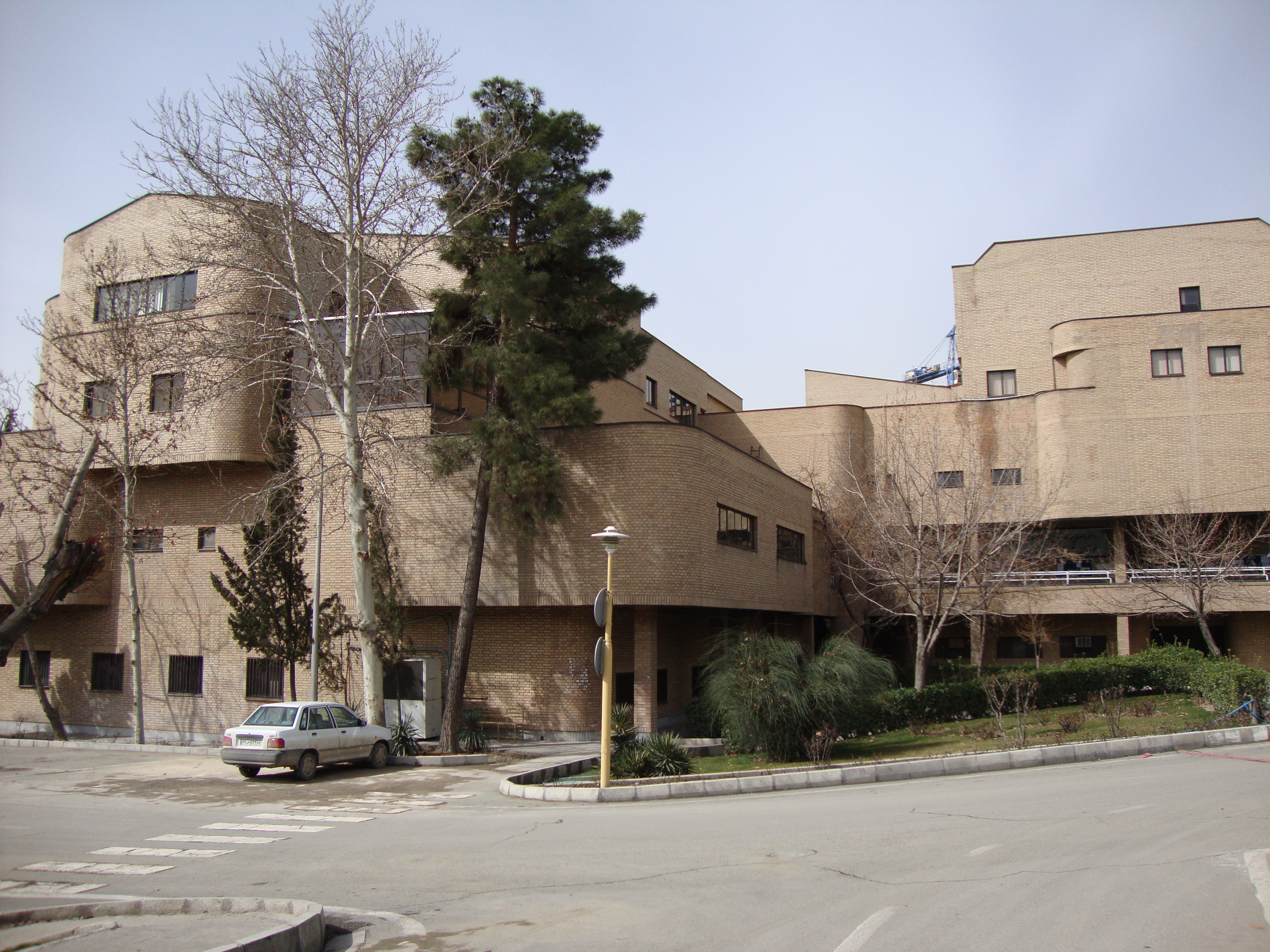 Outline view of School of Mechanical Engineering, Iran University of Science and Technology